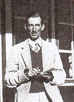 Hugh Richardson standing in front of the dak bungalow at Champithang. There is a servant in the garden on the right of the image. There is a pair of walking boots on the step beside him.